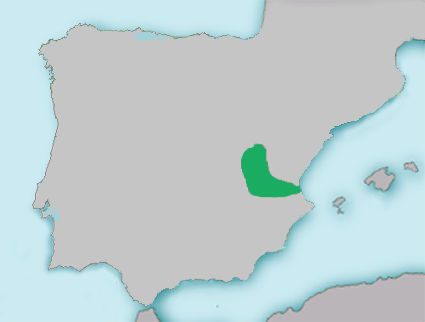 Distribution map of Chondrostoma arrigonis (now Parachondrostoma arrigonis) in Iberian Peninsula